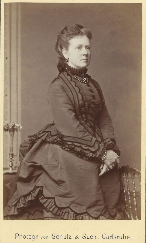 Leopoldine, Princess of Hohenlohe-Langenburg